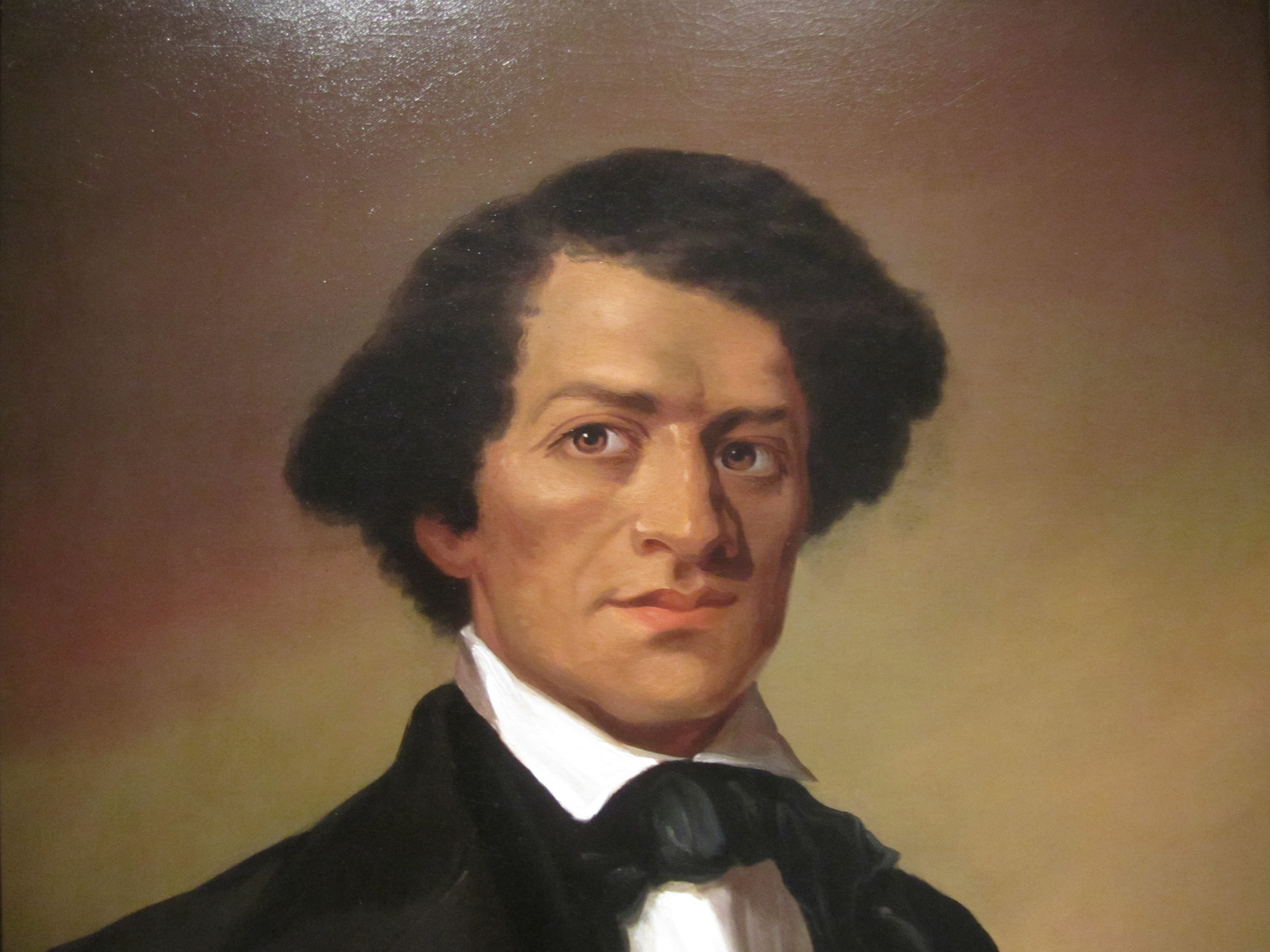 I took photo with Canon camera of Frederick Douglass at National Portrait Gallery in Washington, D.C., public domain.